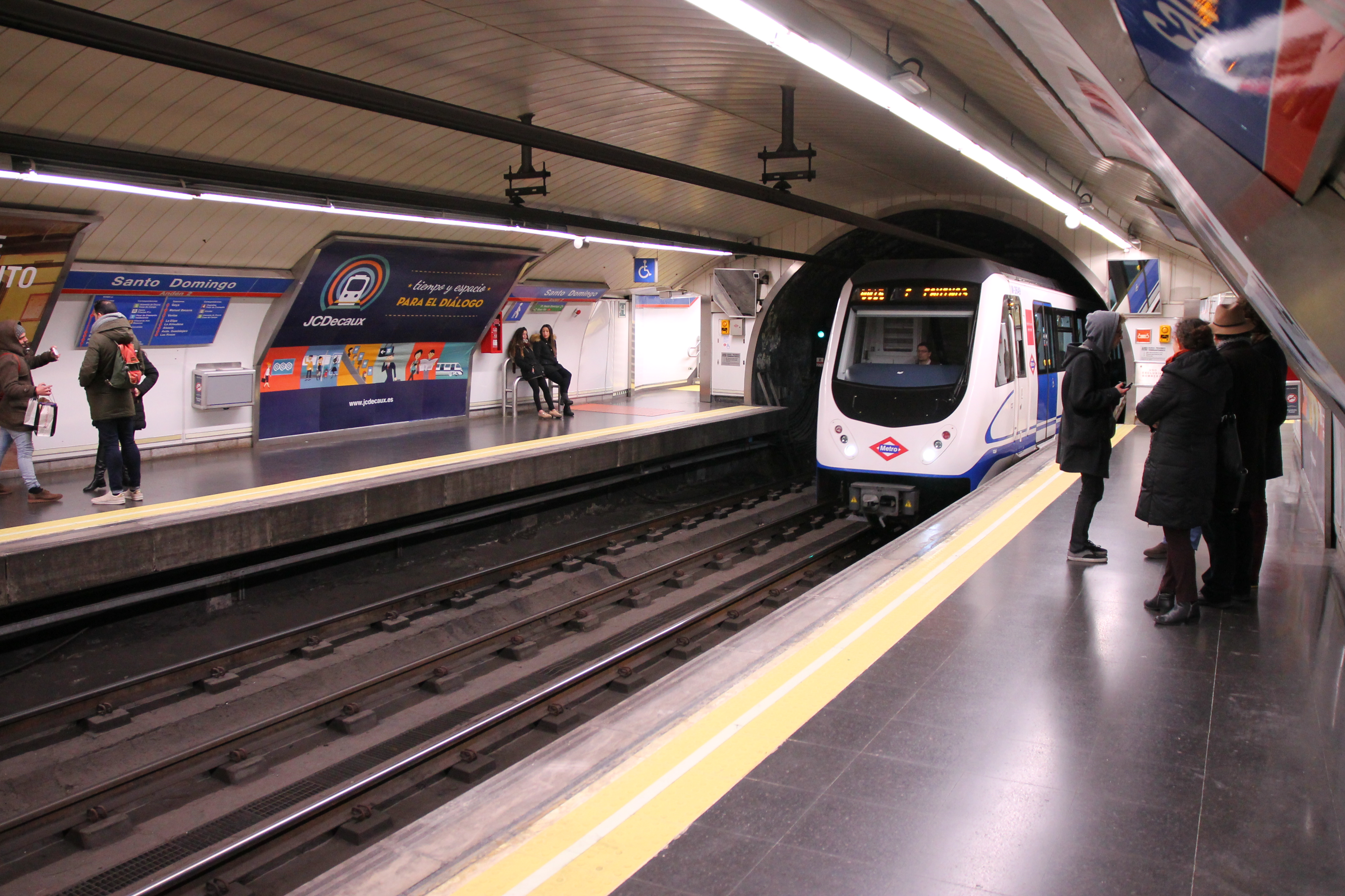 Train class 3000 in the station of Santo Domingo, Madrid Metro